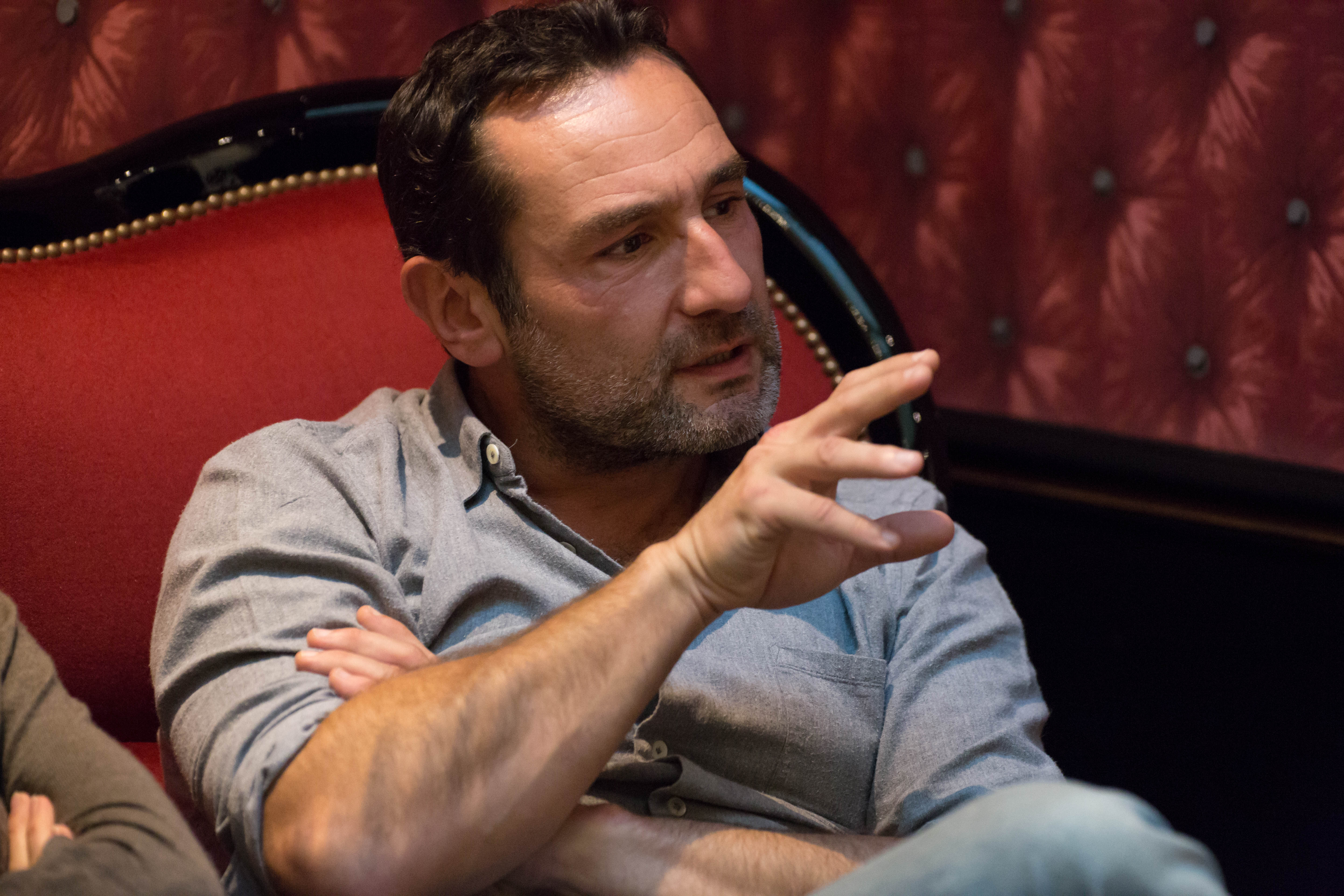 Gilles Lellouche vat grand hotel opéra, Toulouse, France